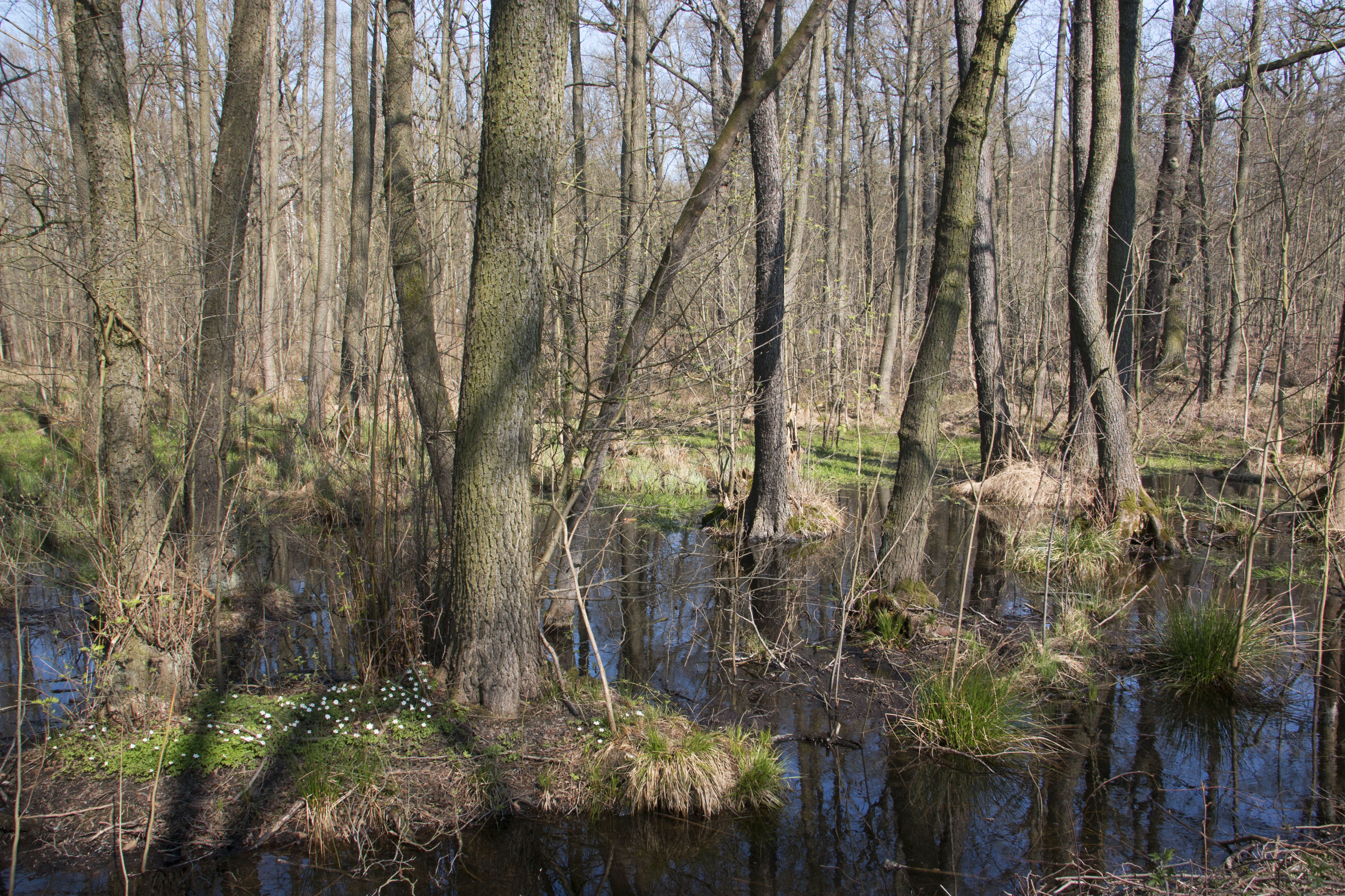 Spring in the nature reserve "Taubequellen"